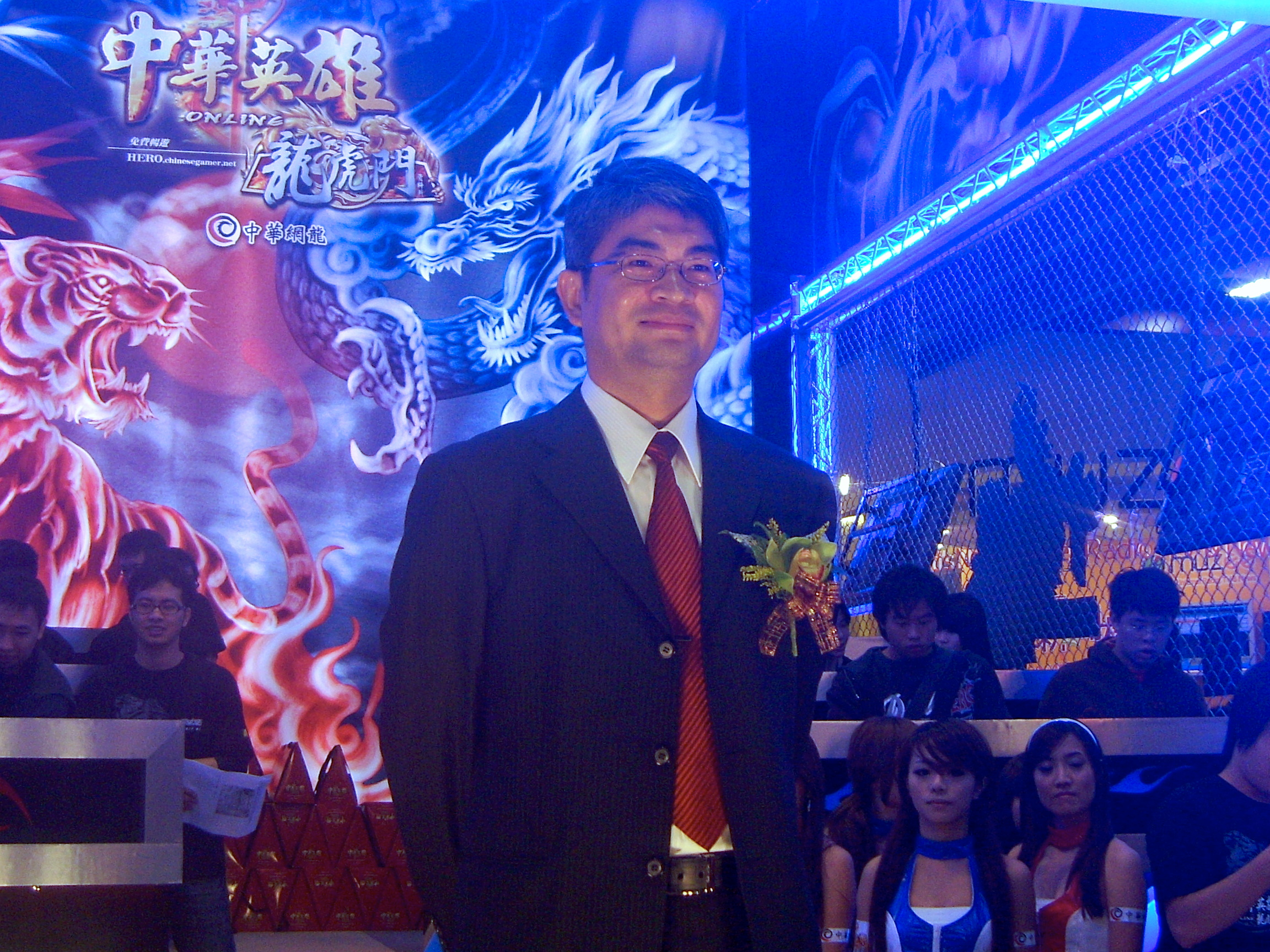 2009 Taipei IT Month: Hsueh-sen Lu, General Manager of Chinese Gamer Inc.